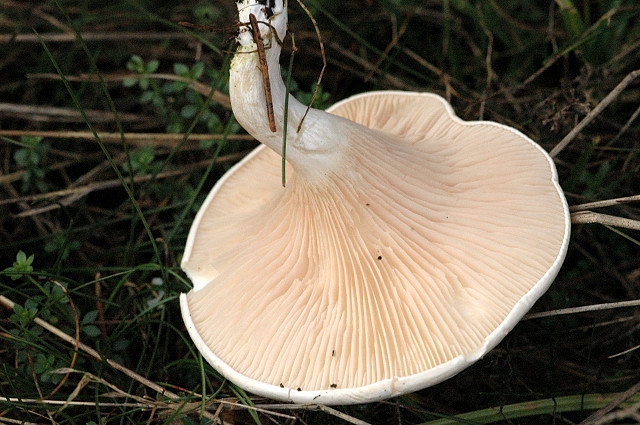 Clitopilus prunulus from Commanster, Belgium. The determination of the species shown in this picture has been verified.